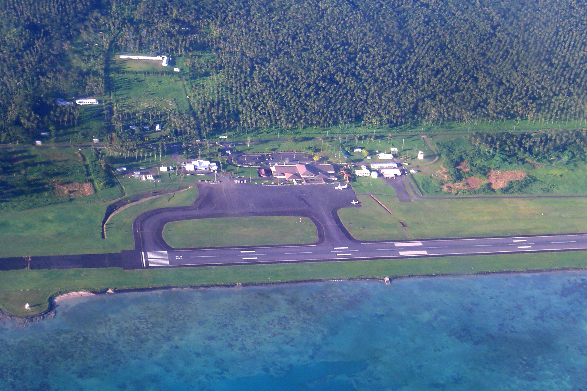 Faleolo Airport Terminal Buildings, Upolu Samoa.